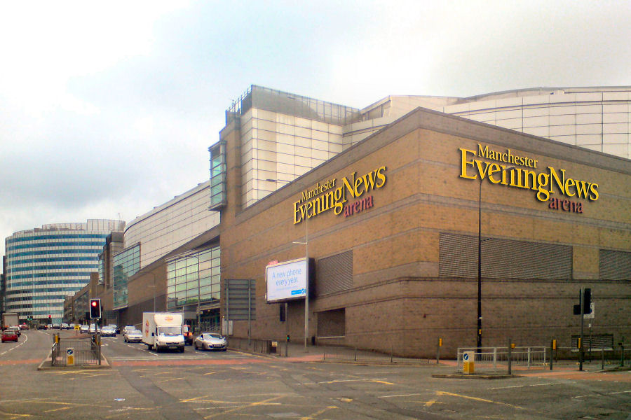 Manchester Evening News Arena, near to Manchester, Great Britain. The junction of Trinity Way (formerly New Bridge Street) and Great Ducie Street (A56)